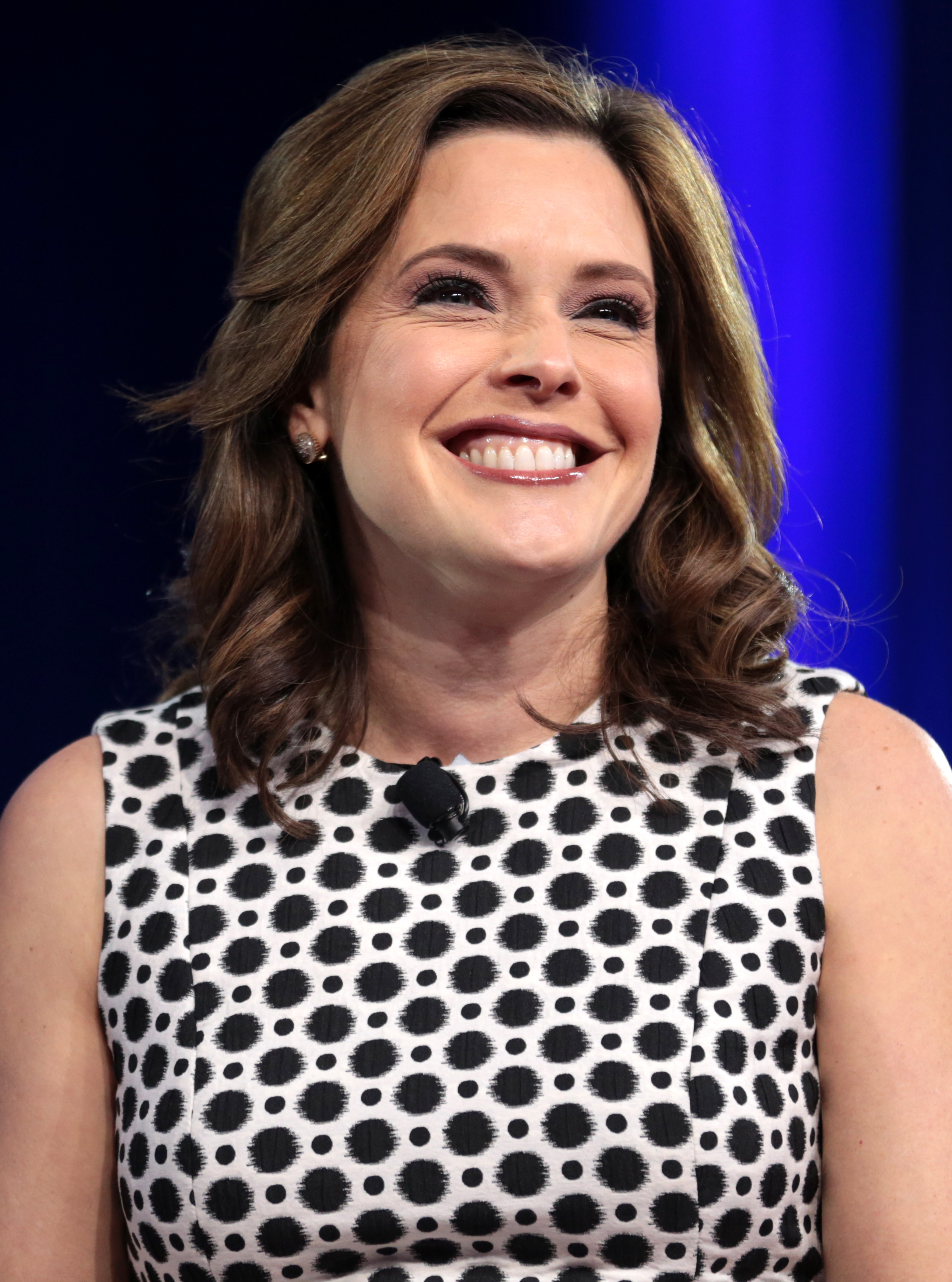 Mercedes Schlapp speaking at the 2017 CPAC in National Harbor, Maryland.